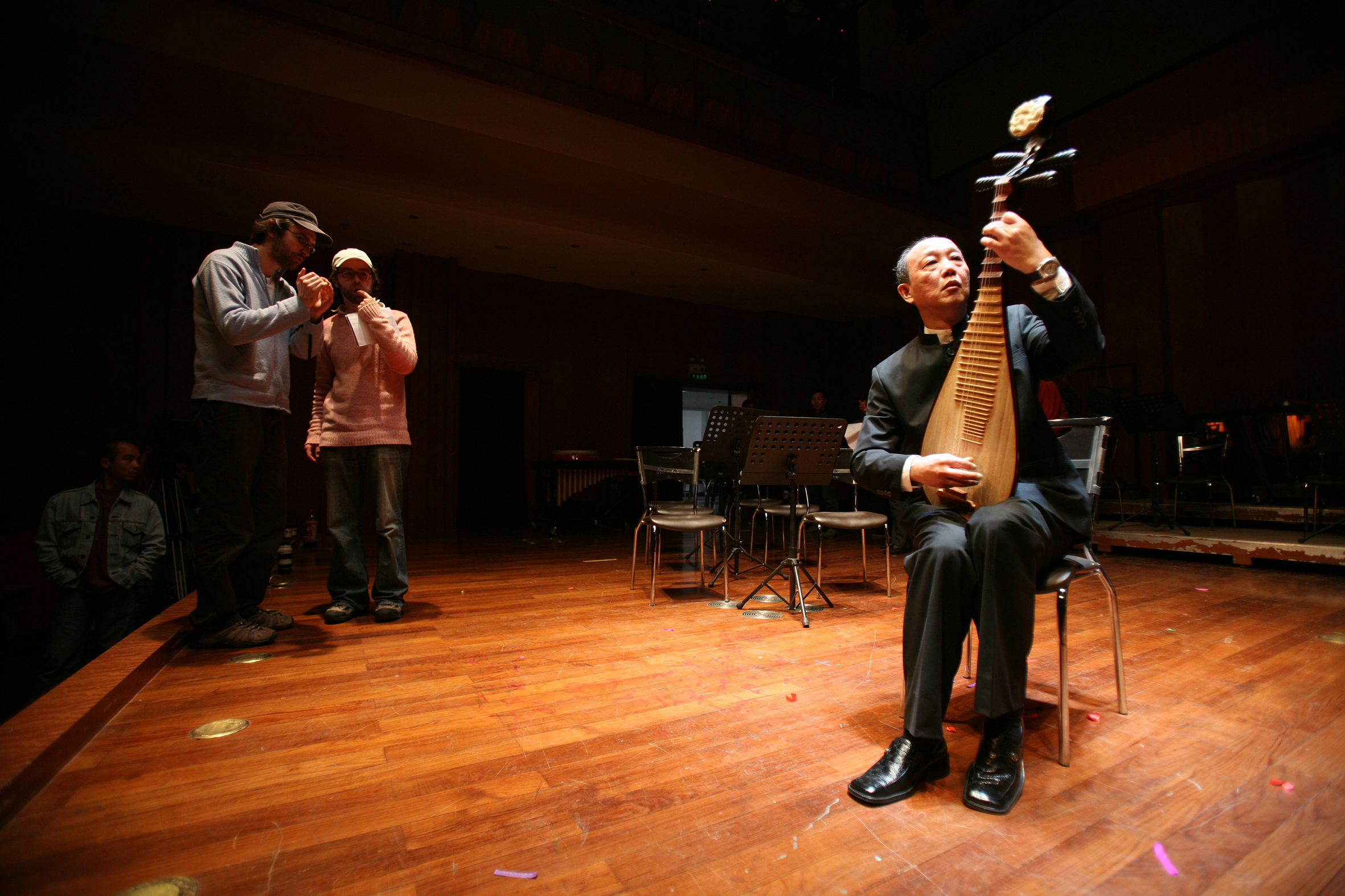 Promotional photo from the documentary film A Farewell Song.